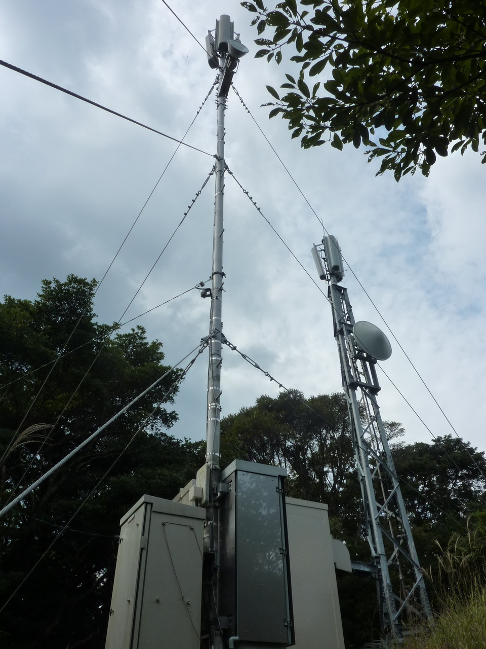 The Masaki Repeater (NHK Miyazaki) is located in Miyazaki Prefecture, Japan.